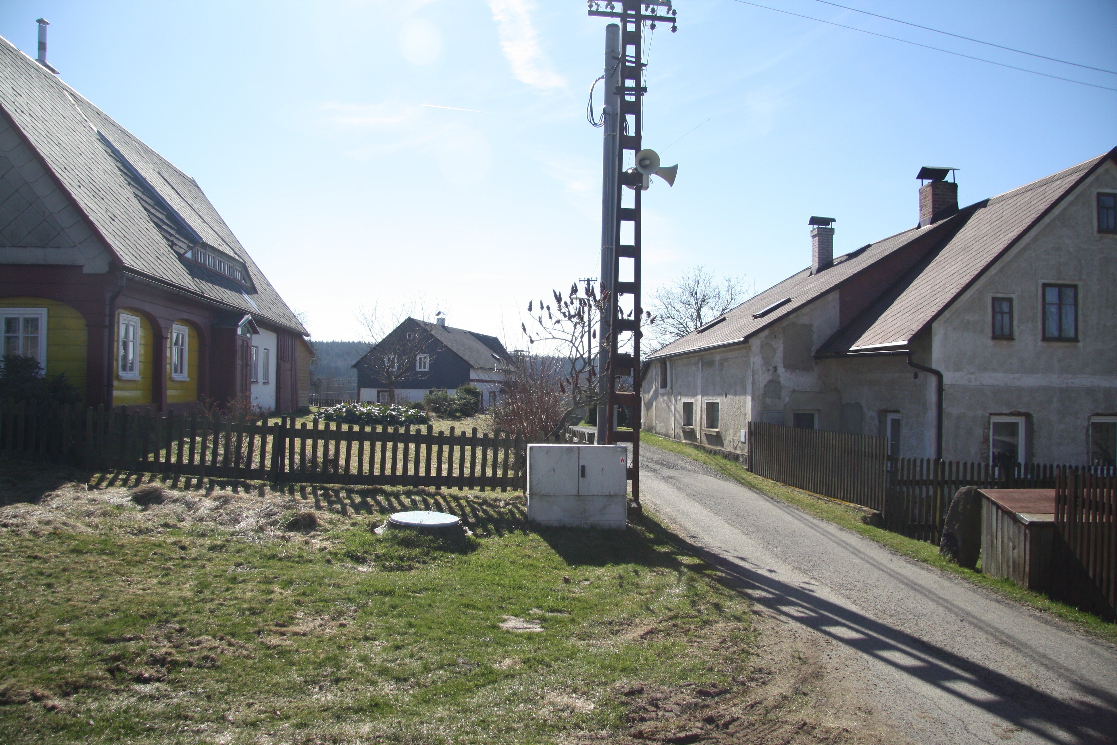 Center of Malý Šenov, Velký Šenov, Děčín District.